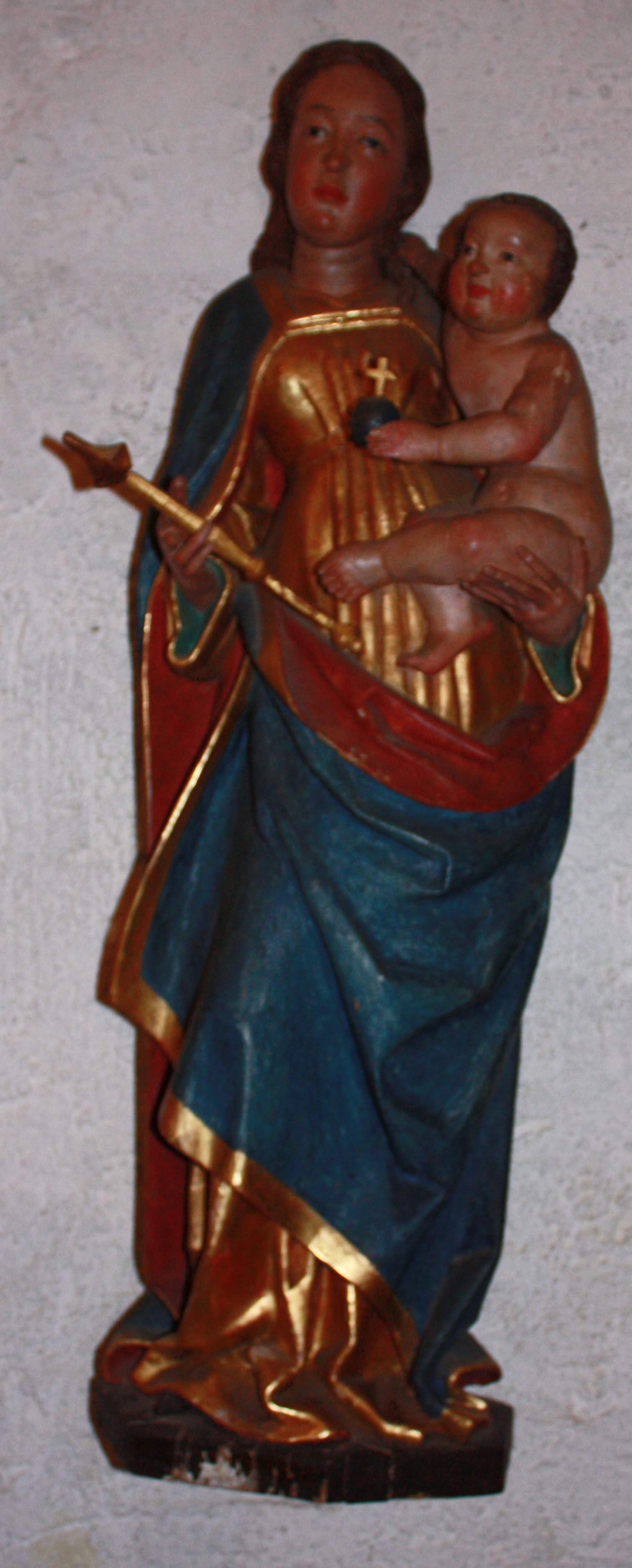 Mary and child in Millstatt district Spittal an der Drau in Carinthia / Austria / EU.